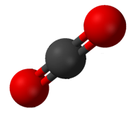 ball-and-stick model of CO2: carbon dioxide